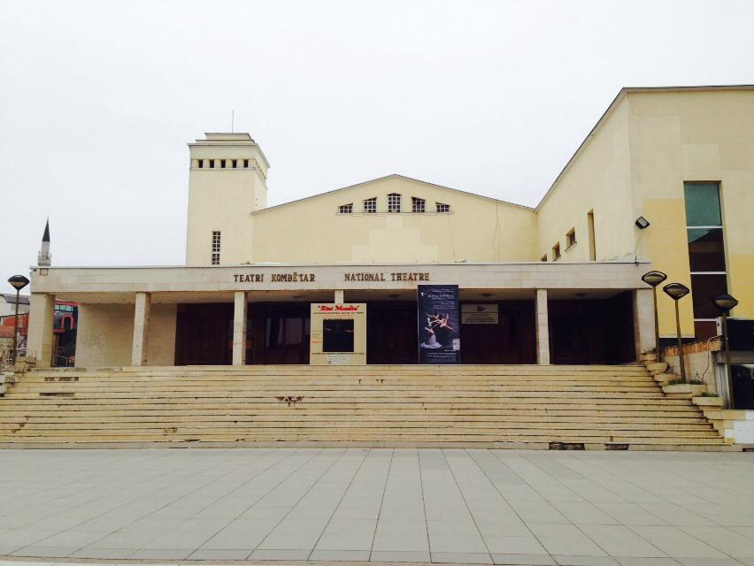 National Theatre of Kosova. A view of National Theatre of Kosova in Pristina.